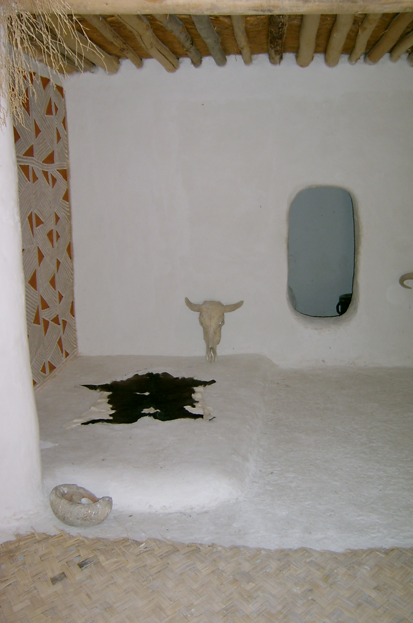 A house probably looked like this model at Catal Hüyük